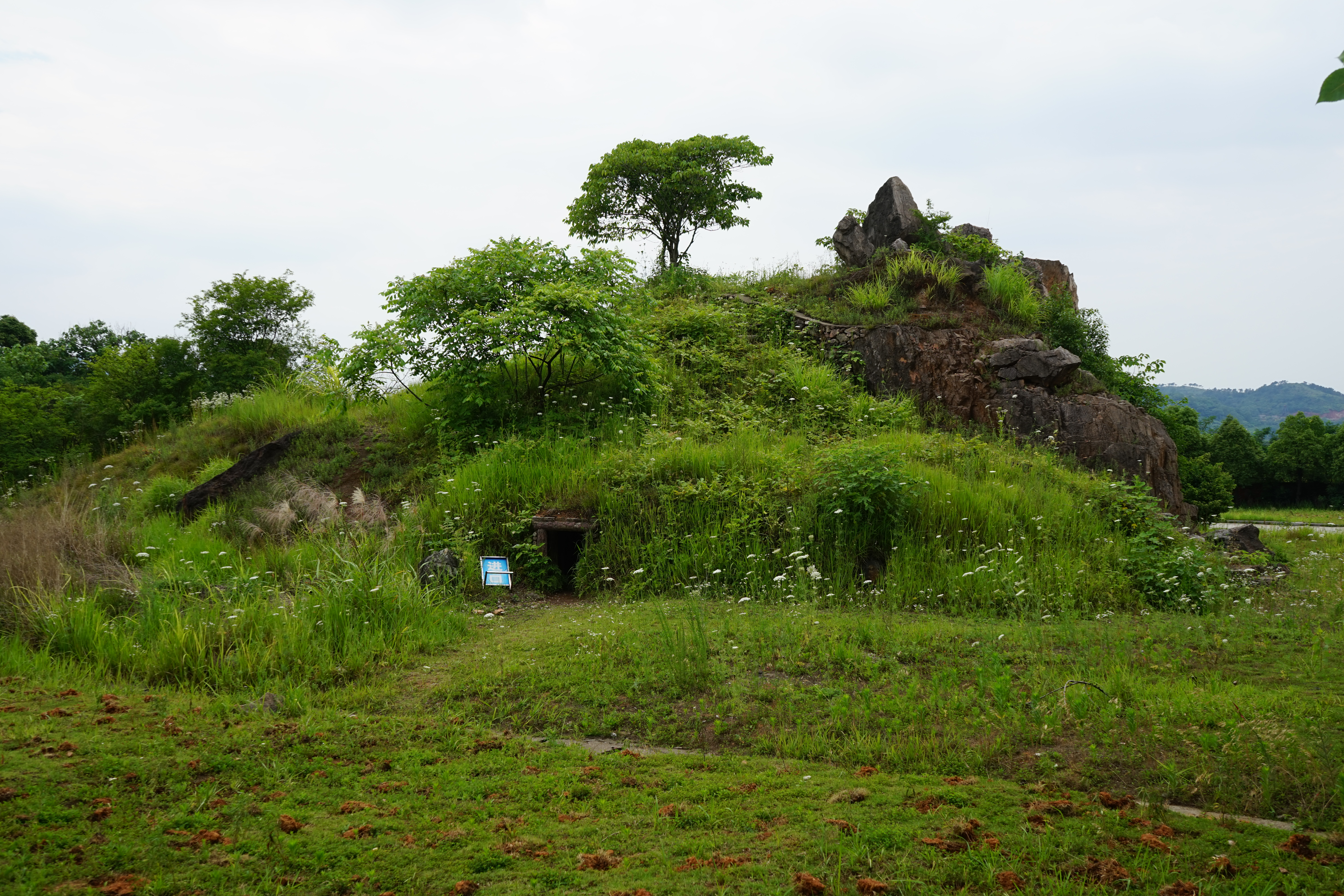 No.2 Mining Site of the Shang and Zhou Dynasties (商周采矿遗址2号点). Located in the southwest of the VII Ore Body, its original height is 70 meters, in irregular oval shape, 40 meters from west to east and 25 meters from north to south.